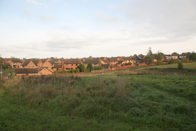 town meets country Aston Lodge Park at Little Stoke on SE edge of Stone. Built over a period of 25 years; the houses shown being ca. 10 years old.